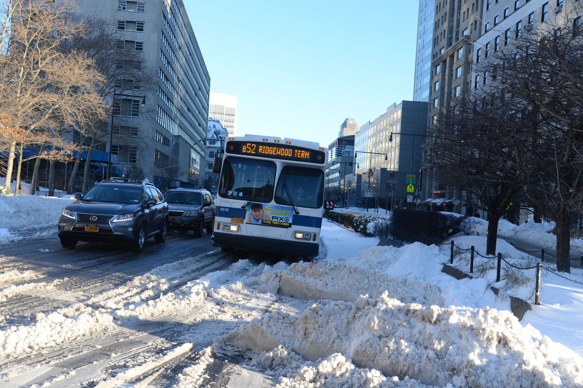 MTA New York City Transit outdoor train service and bus service began operating again on Sun., January 24, 2016 the morning after an historic blizzard. A B52 bus at Fulton St. & Adams St. Photo: Marc A. Hermann / MTA New York City Transit